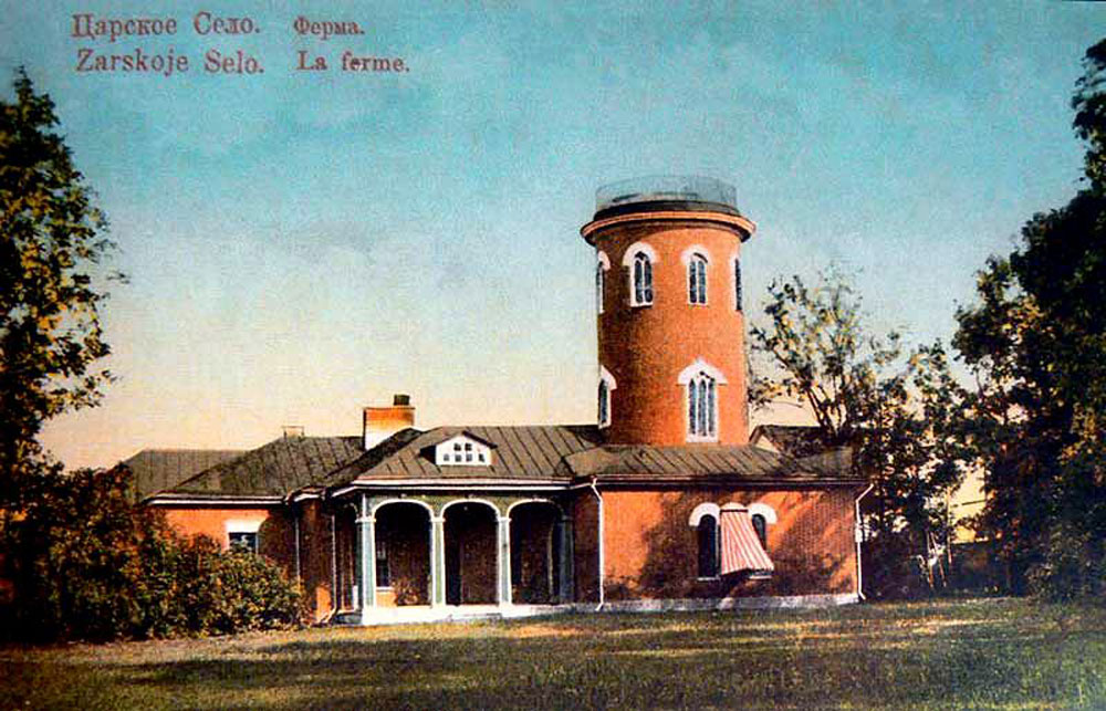 Royal farm in Tsarskoe Selo. Postcard. 1900.